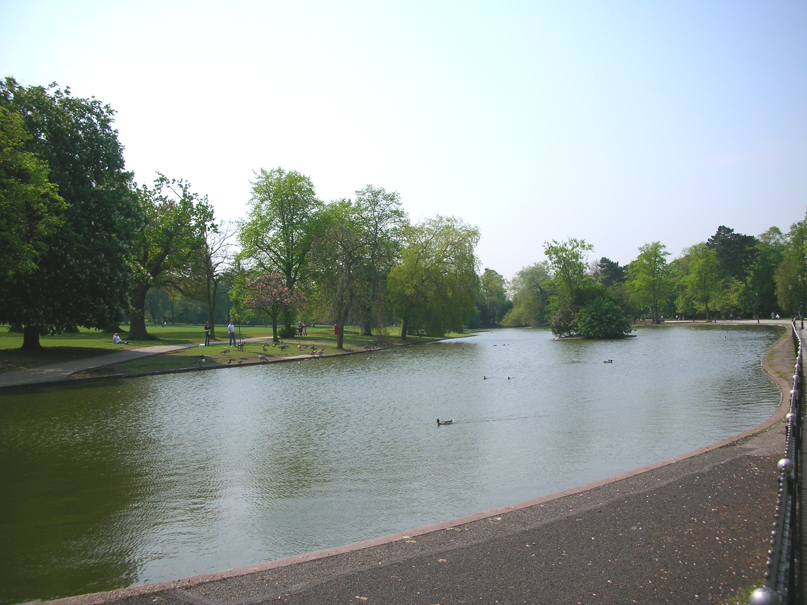 Cannon Hill Park, Edgbaston, Birmingham, photographed by me 10 May 2006